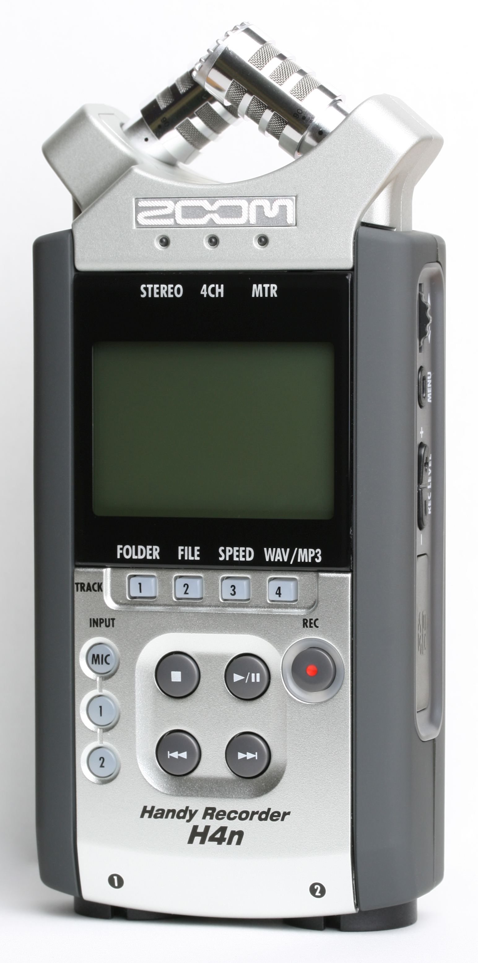 The front side of a H4n Digital Recorder by Zoom